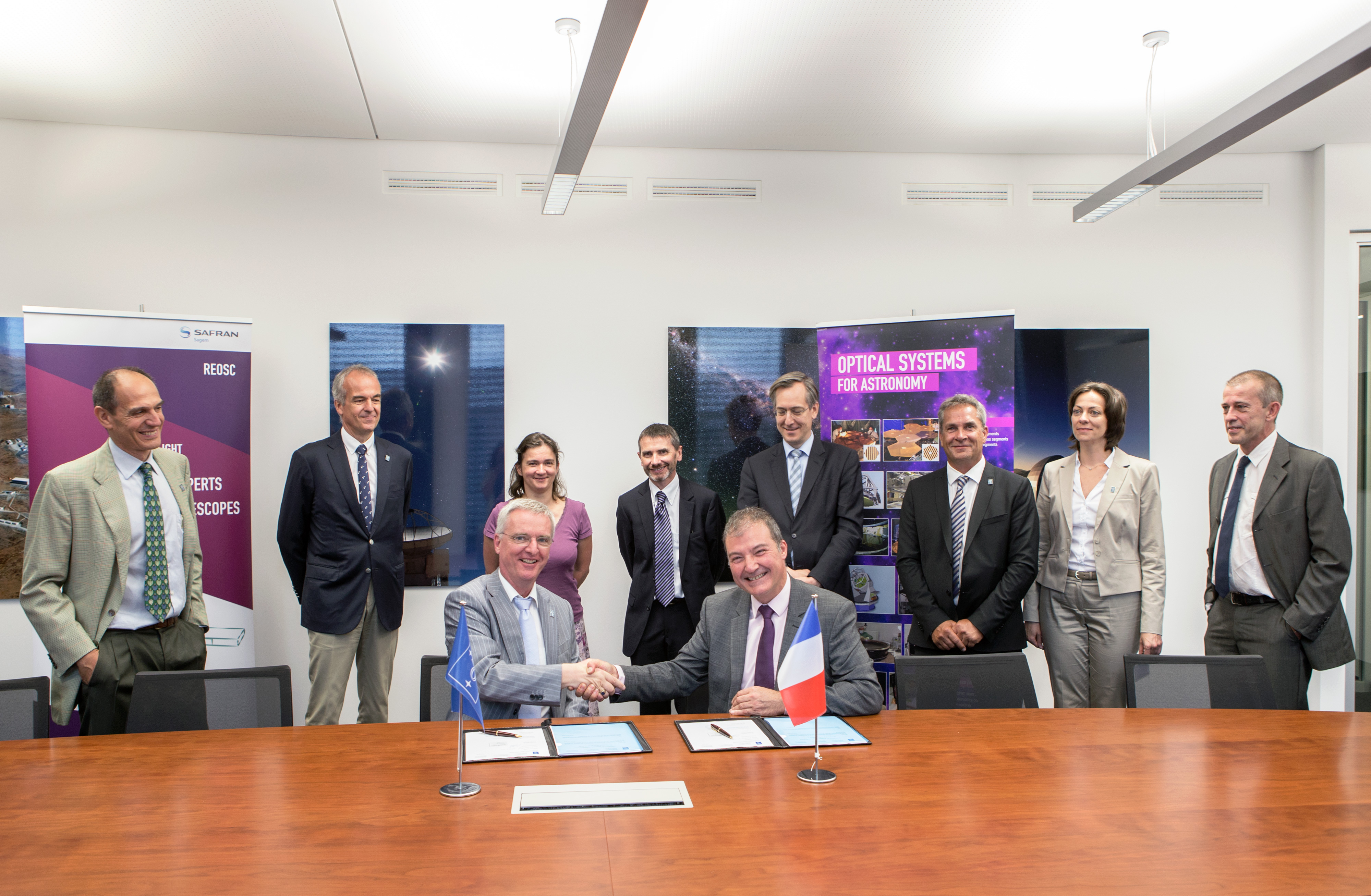 ESO has signed a contract with the French optics company Reosc, a subsidiary of Sagem, Safran group, to manufacture the deformable shell mirrors that will comprise the fourth mirror (M4) of the European Extremely Large Telescope (E-ELT). These mirrors will be mounted and supported in the adaptive mirror unit (ann15045) to form the largest-ever adaptive mirror unit in the world. The contract was signed by representatives of Reosc and ESO at a ceremony at ESO Headquarters on 8 July 2015.